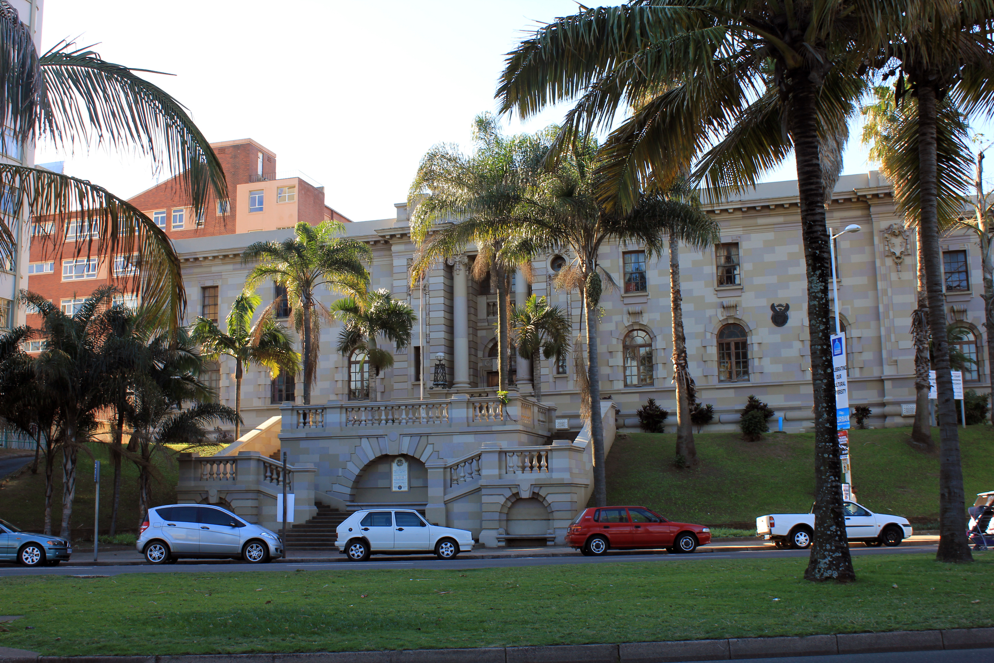 Supreme Court 151 Victoria Embankment, Durban This building, designed by the architect Stanley Hudson, was erected in 1911. This media shows a South African Protected Site with SAHRA file reference 9/2/407/0023.